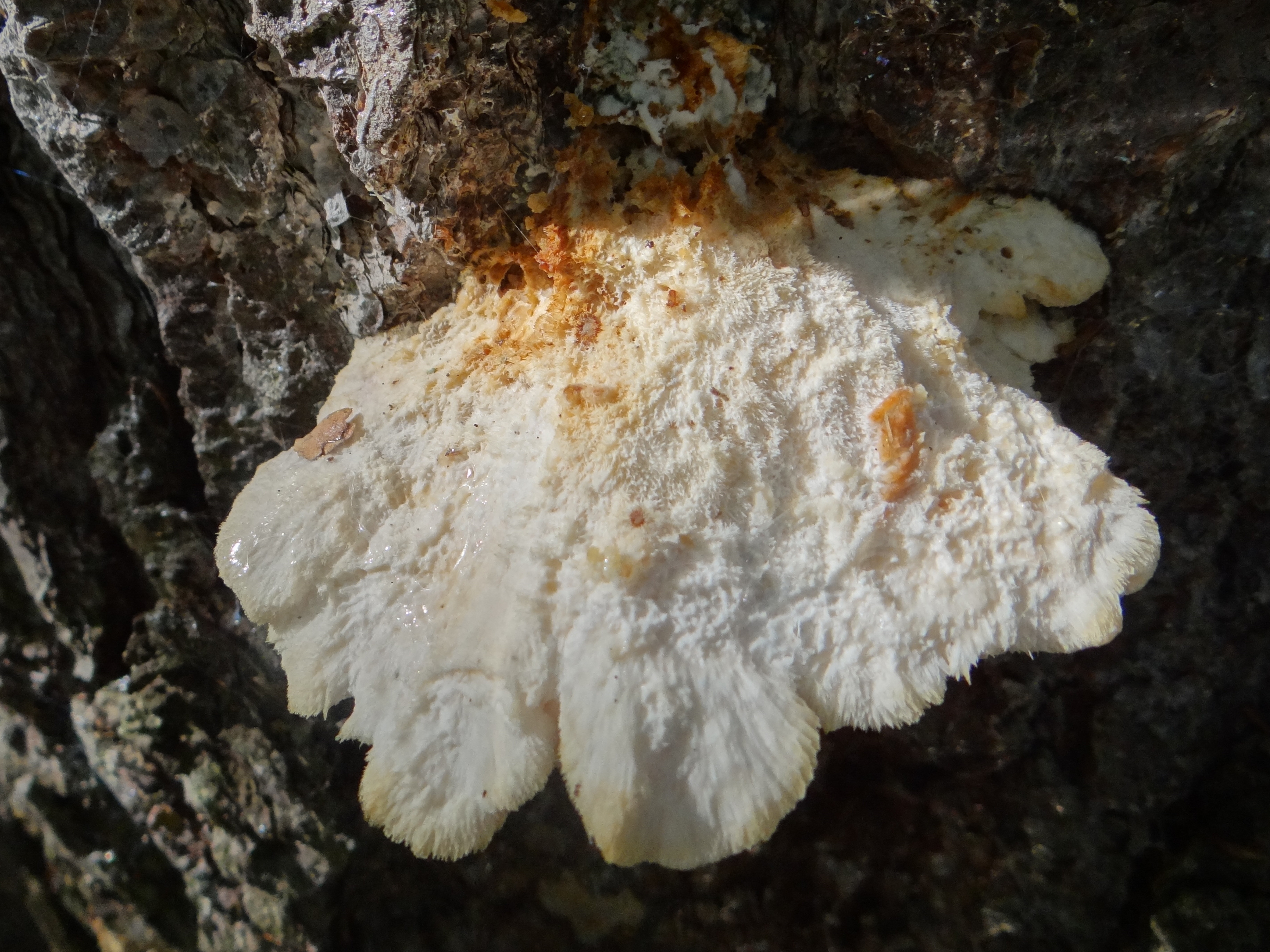 Climacocystis borealis (Position: Poland, Babia Góra, Górny Płaj, Klin)